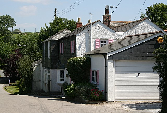 Pink Shutters near Tredrizzick Bridge. These houses seem to have grown in several stages. The garage in the foreground appears to be the most modern addition.